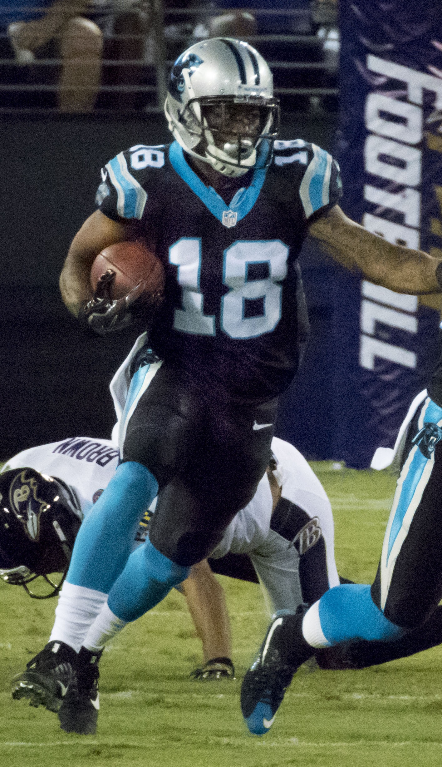 Panthers at Ravens 8/11/16